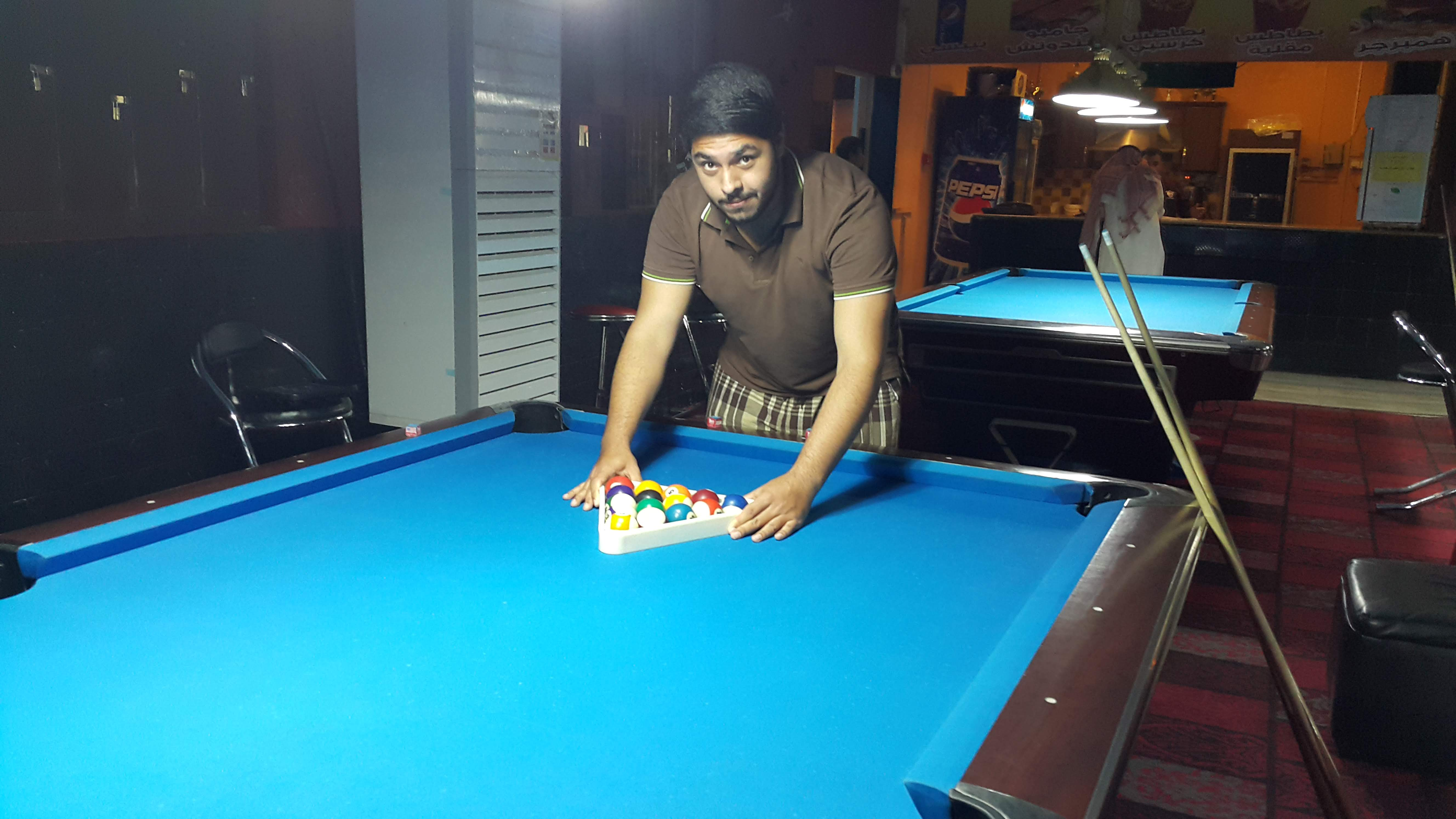 A person setting the cue-balls to play Pool